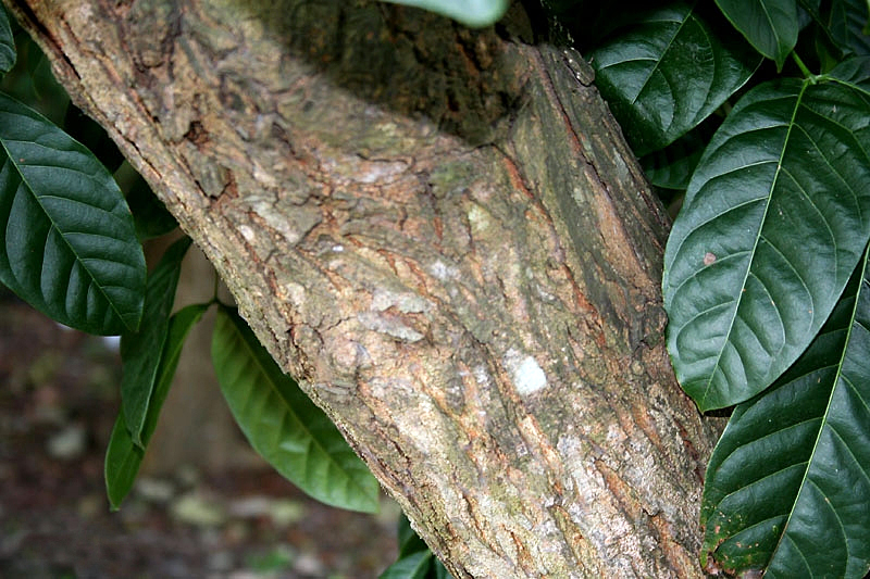 Large-leaved Mahogany Swietenia macrophylla in Kolkata, West Bengal, India.